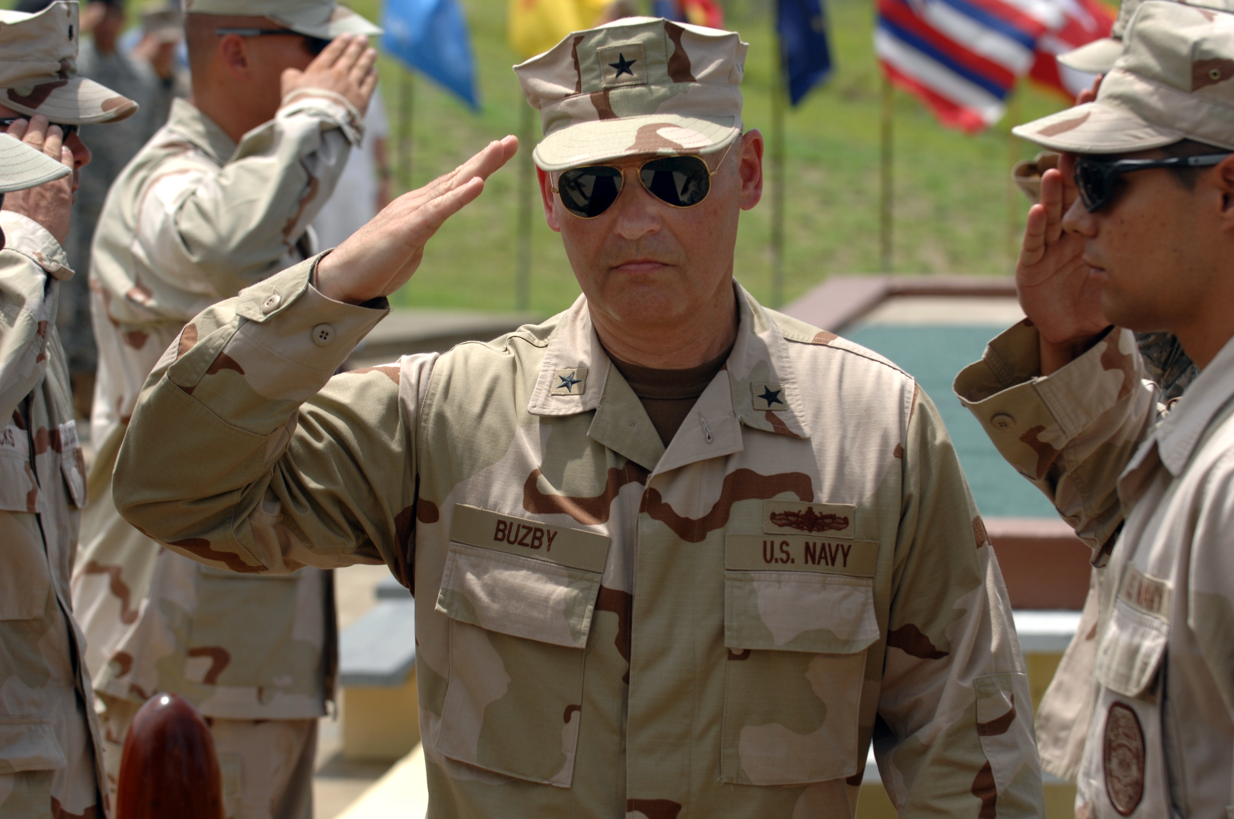 GUANTANAMO BAY, Cuba (May 22, 2007) - Rear Admiral Mark H. Buzby renders a hand salute during a change of command ceremony on board Naval Station Guantanamo Bay. Rear. Adm. Buzby relieved Rear Adm. Harry B. Harris Jr., during a ceremony presided by Commander, United States Southern Command, Adm. James Stavridis. JTF-Guantanamo conducts safe and humane care and custody of detained enemy combatants.